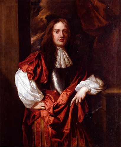 Sir Charles Bertie (c1640-1711)